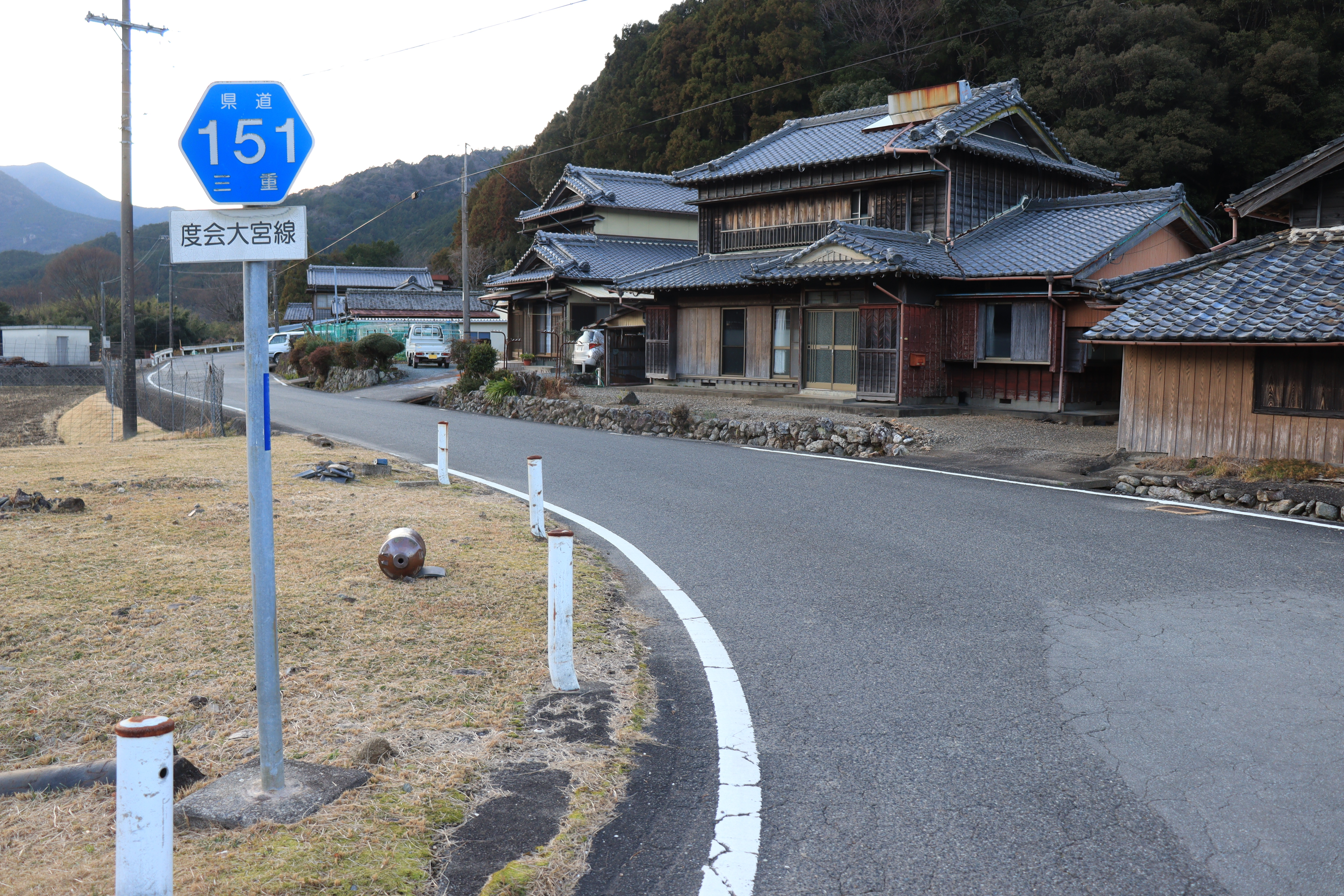 Mie Prefectural Road Route 151 in Minaminakamura, Watarai, Mie Prefecture, Japan.